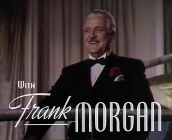 Cropped screenshot of Frank Morgan from the trailer for the film Sweethearts